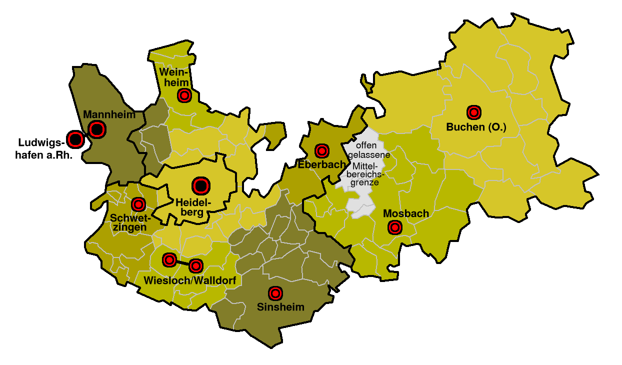 Maps of planning regions (Mittelbereiche) in the region Rhein-Neckar (Baden-Württemberg part), Germany